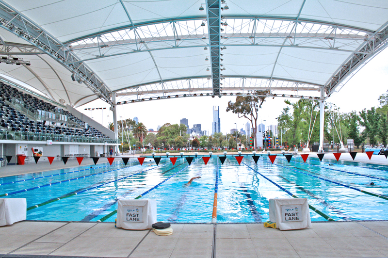 Olympic Swimming Pool Fast Lane